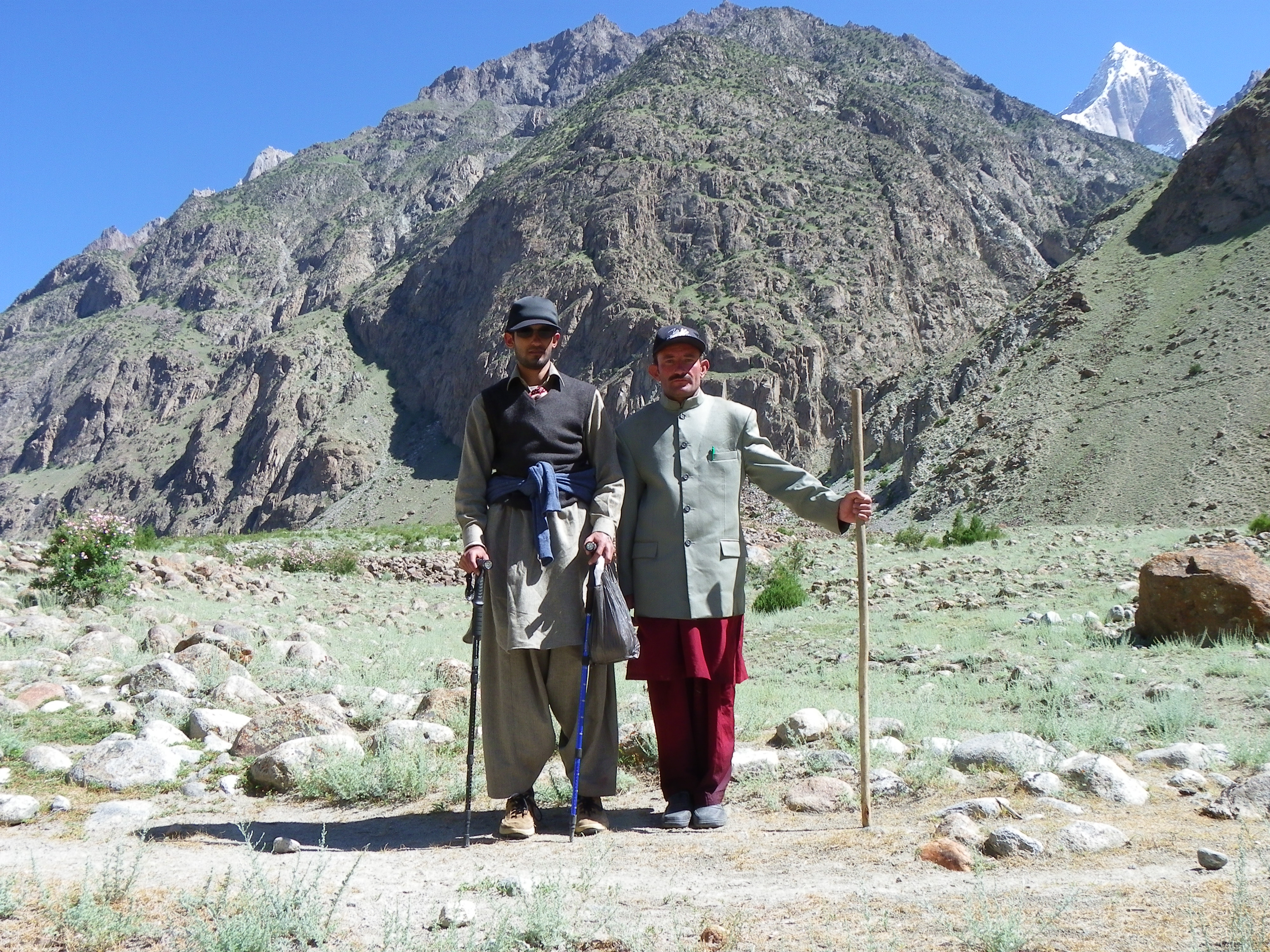 Look alike K-2 in the background